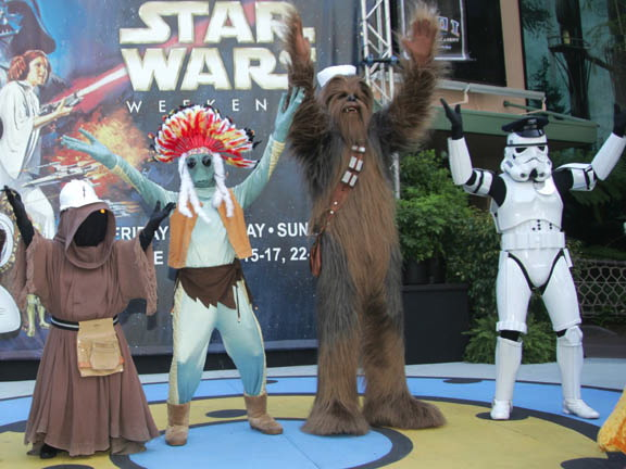 The Village...."People"??? A Jawa, Greedo, Chewbacca and a stormtrooper take on the roles of the famous 1970s disco group The Village People and lead the crowd in the "YMCA" dance.For video coverage of the third Disney Weekend of 2007, click here.